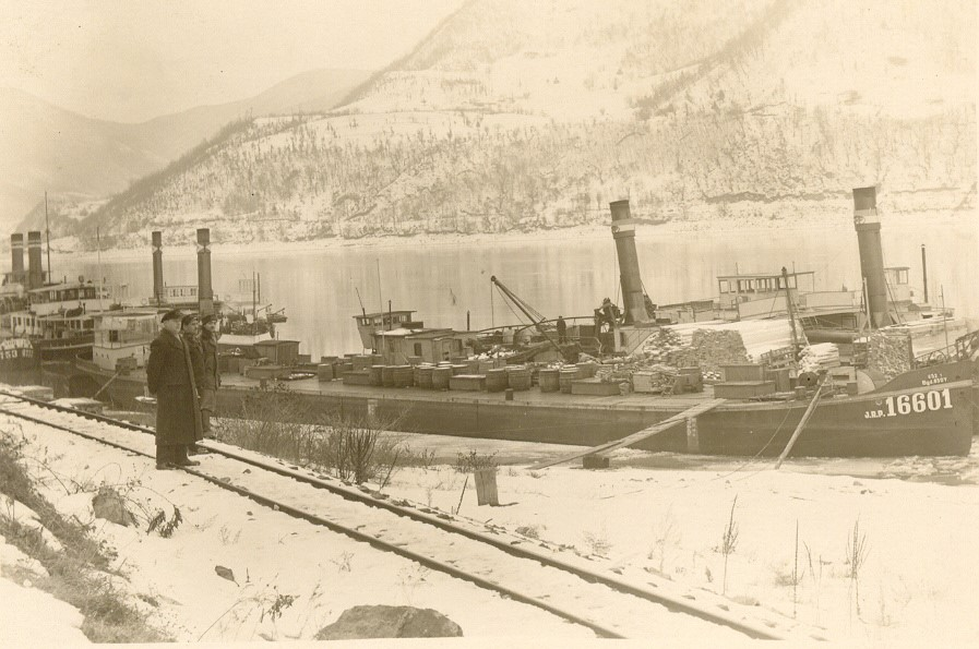 Kajmakčalan in the Drenkova winter home, 1938-39.